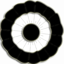 The Federalist Party Logo